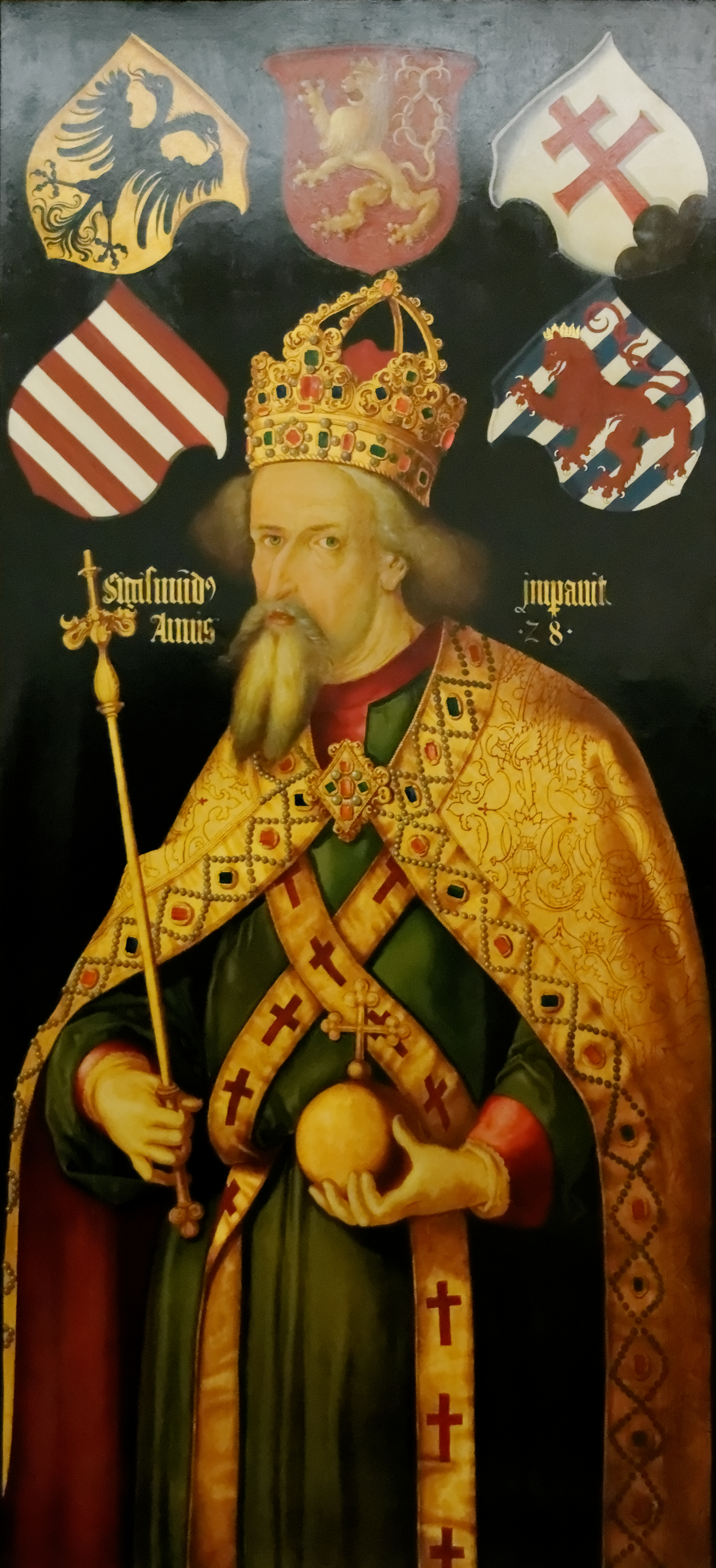 Emperor Sigismund. Hungarian National Museum, Budapest.